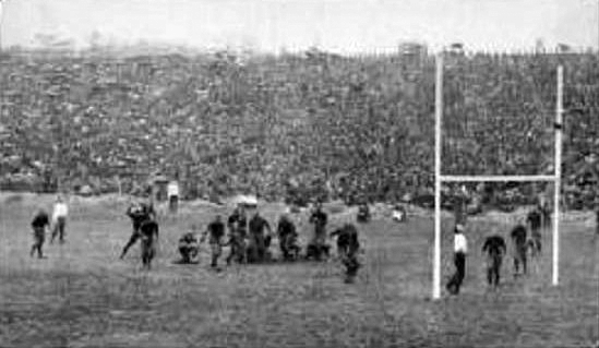 1913 Harvard vs Princeton football game, showing Harvard's winning field goal